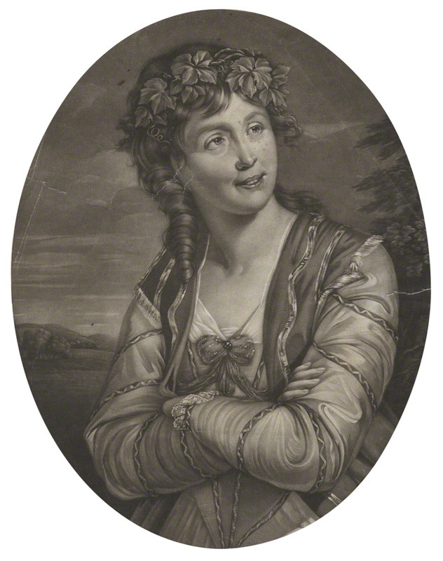 Portrait of Ann Catley (1745–1789), English singer and actress, as Euphrosyne in Comus by John Milton.